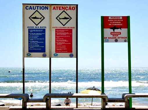 Signs warning of shark attacks at Boa Viagem Beach in Recife, Brazil.